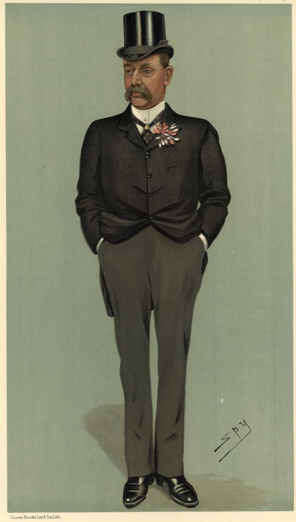 Caricature of Frederic Carne Rasch MP - “South-East Essex” .